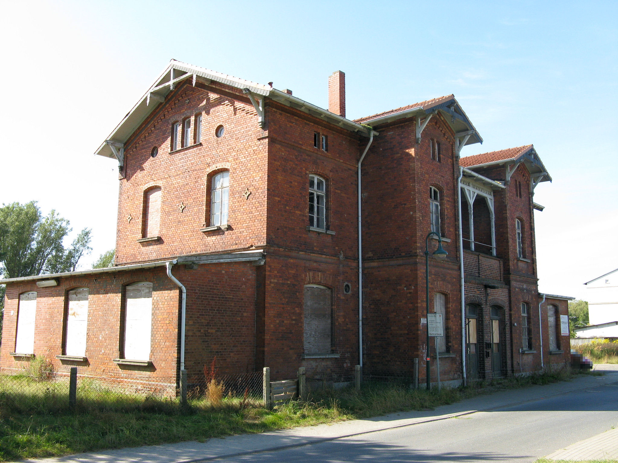 Building of train station in Lalendorf, disctrict Güstrow, Mecklenburg-Vorpommern, Germany